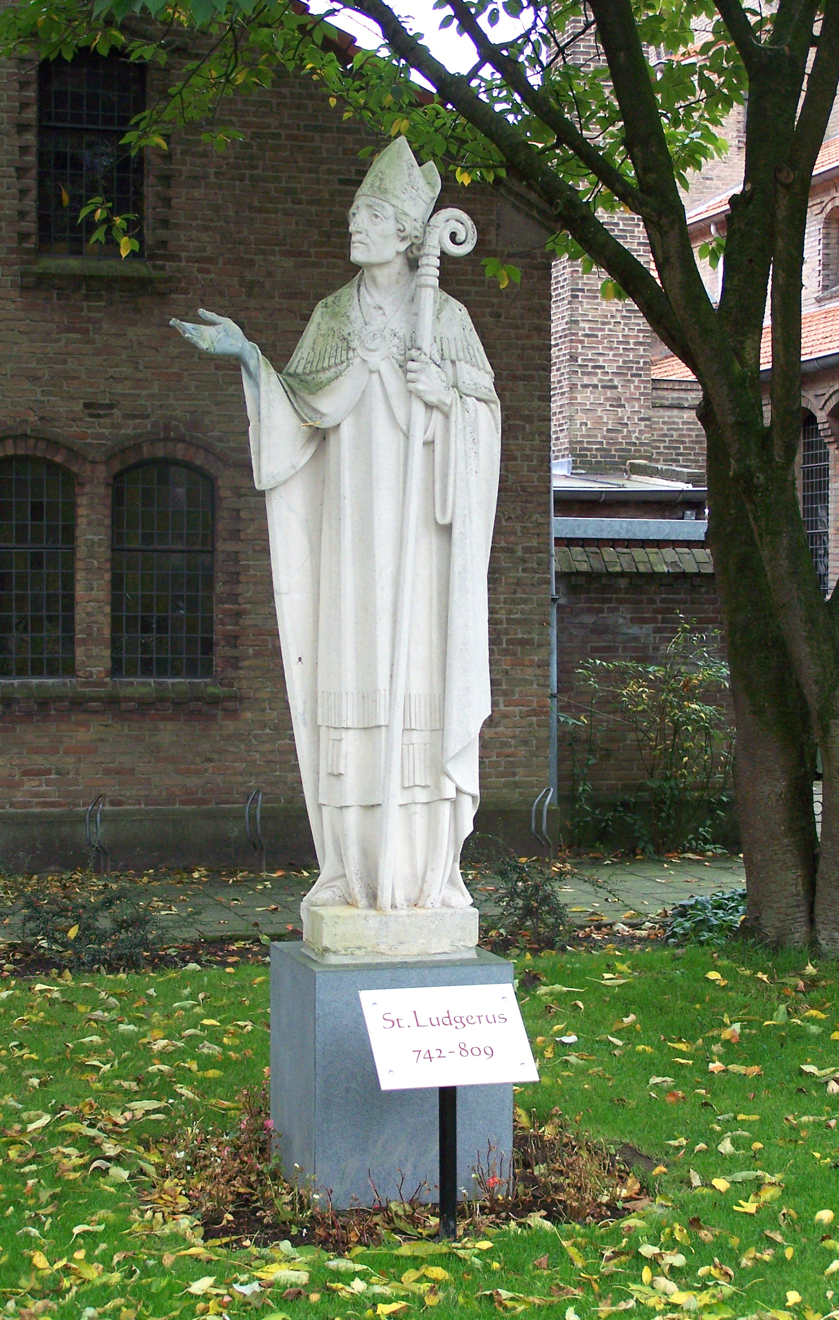 Statue of Saint Liudger. Placed at the Prins Bernhardplein in Utrecht. It was made as an altarpiece in 1950 by Leo Jungblut for the Ludgeruschurch in Zuilen (Utrecht) where it as flanked by smaller sculptures of G.B.W. Schilte (Initiator of the building of the church) and Charlemagne. In 1977 the church was demolished and the statue was moved to the inner garden of the Ludgercentrum till 1998. Untill 2007 the statue stood at the inner garden of the Sint Jacobuschurch. Due to the wheater, the statue was severly damaged. In 2007 the statue was restored and placed at the little garden outside the church.